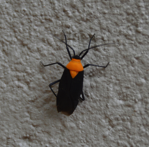 Prepops insitivus found in Lady Lake, Florida, USA on April 19, 2015